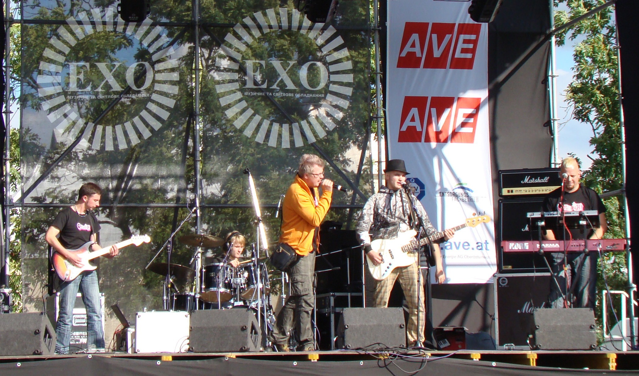 Ukrainian band "Oratanija" during their soundcheck at "Naš Fest" in Zvenyhorod.